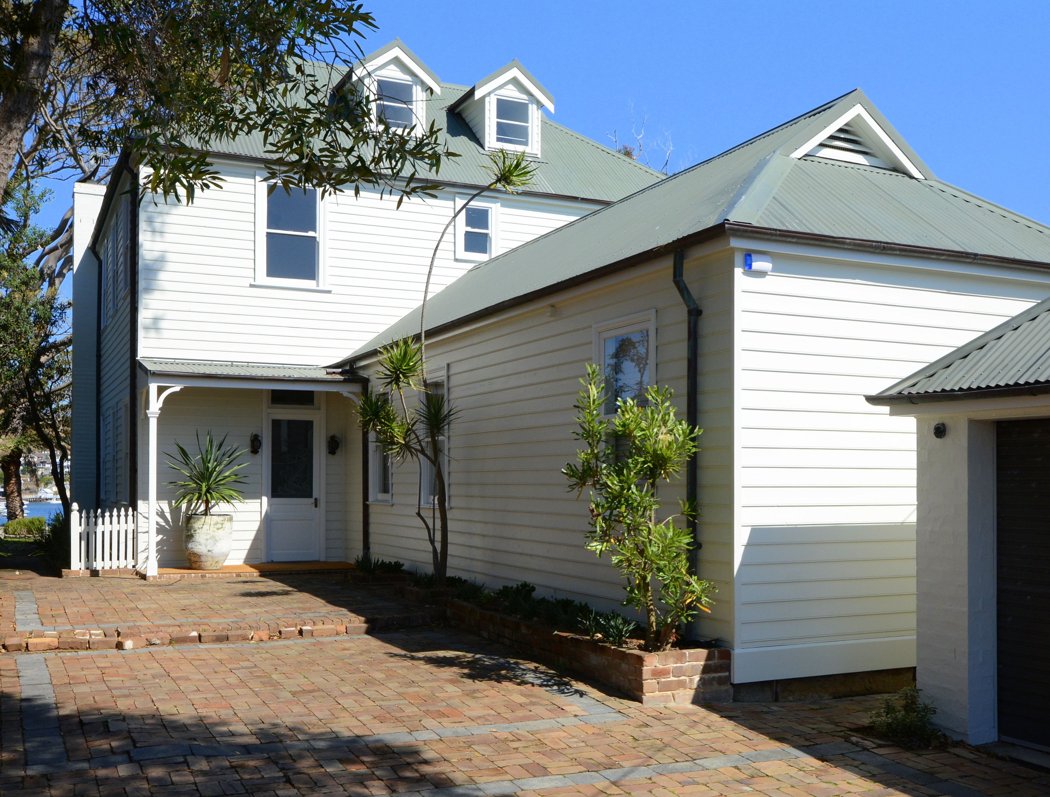 House in Pacific Street, Watsons Bay, Sydney, where Australian novelist Christina Stead lived 1911-1928.